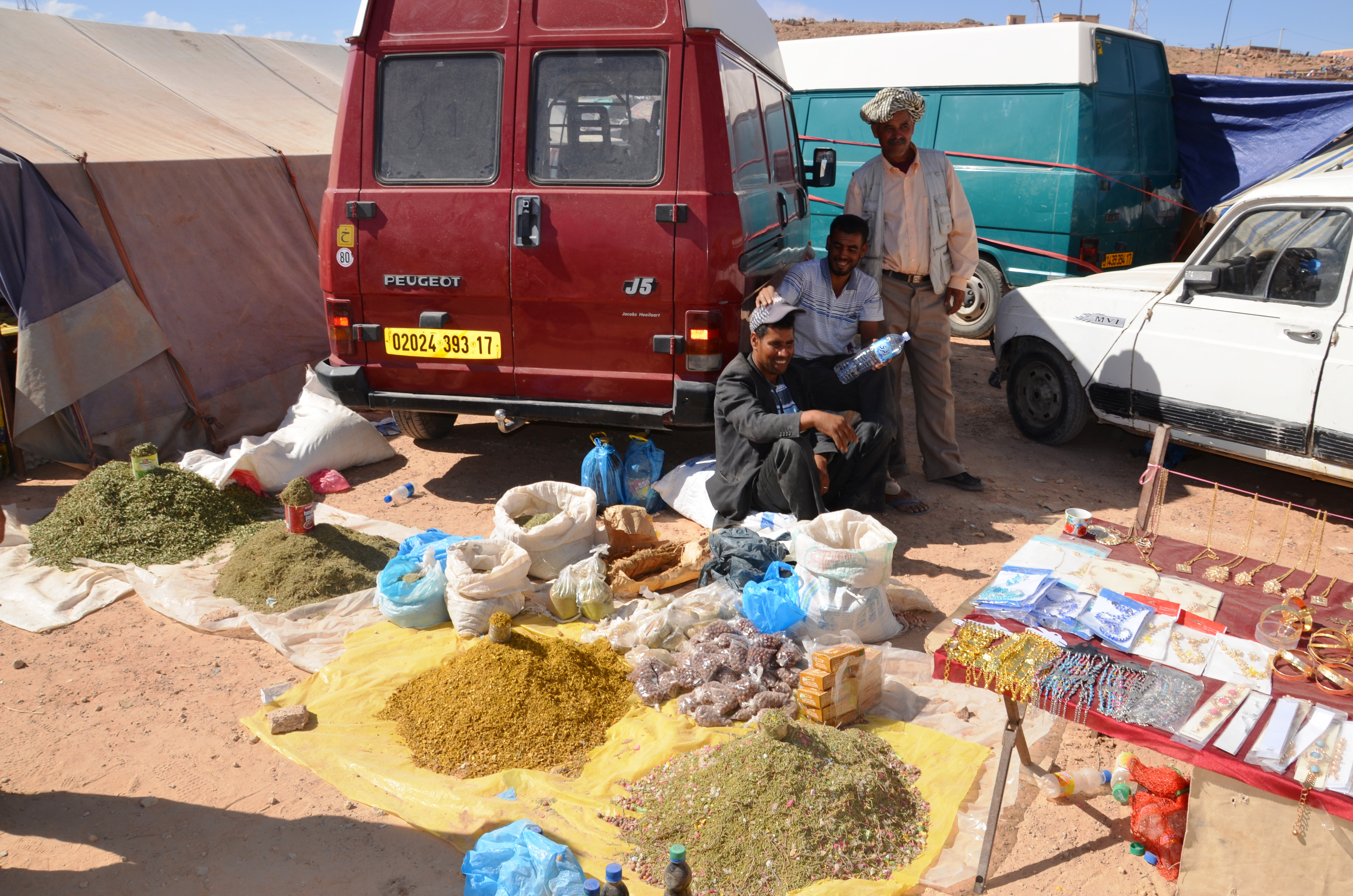 This is an image with the theme "Africa on the Move or Transport" from: Algeria